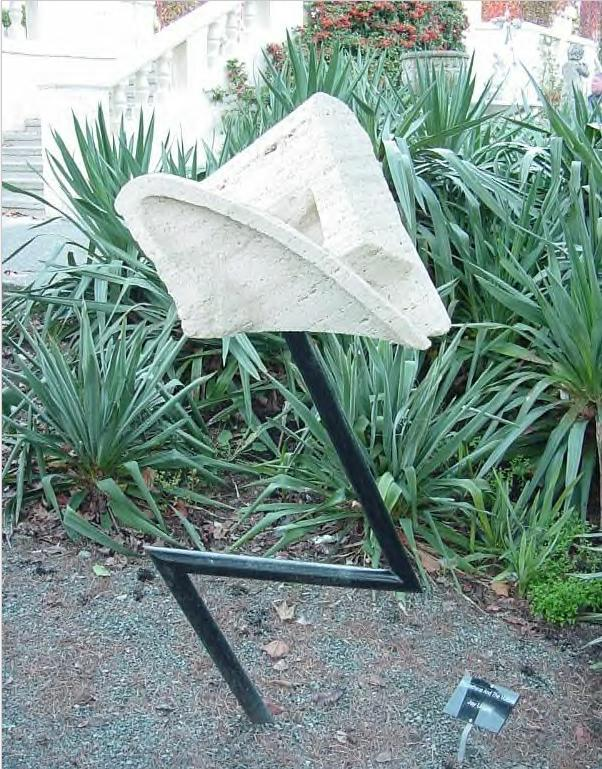 Prometheous and the Vulture sculpture, Royal Roads University